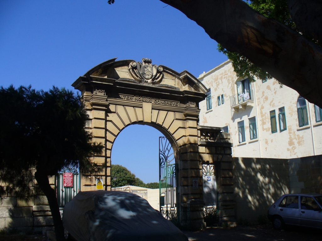 Congreve Memorial Arch, Scout HQ, Floriana, Malta.